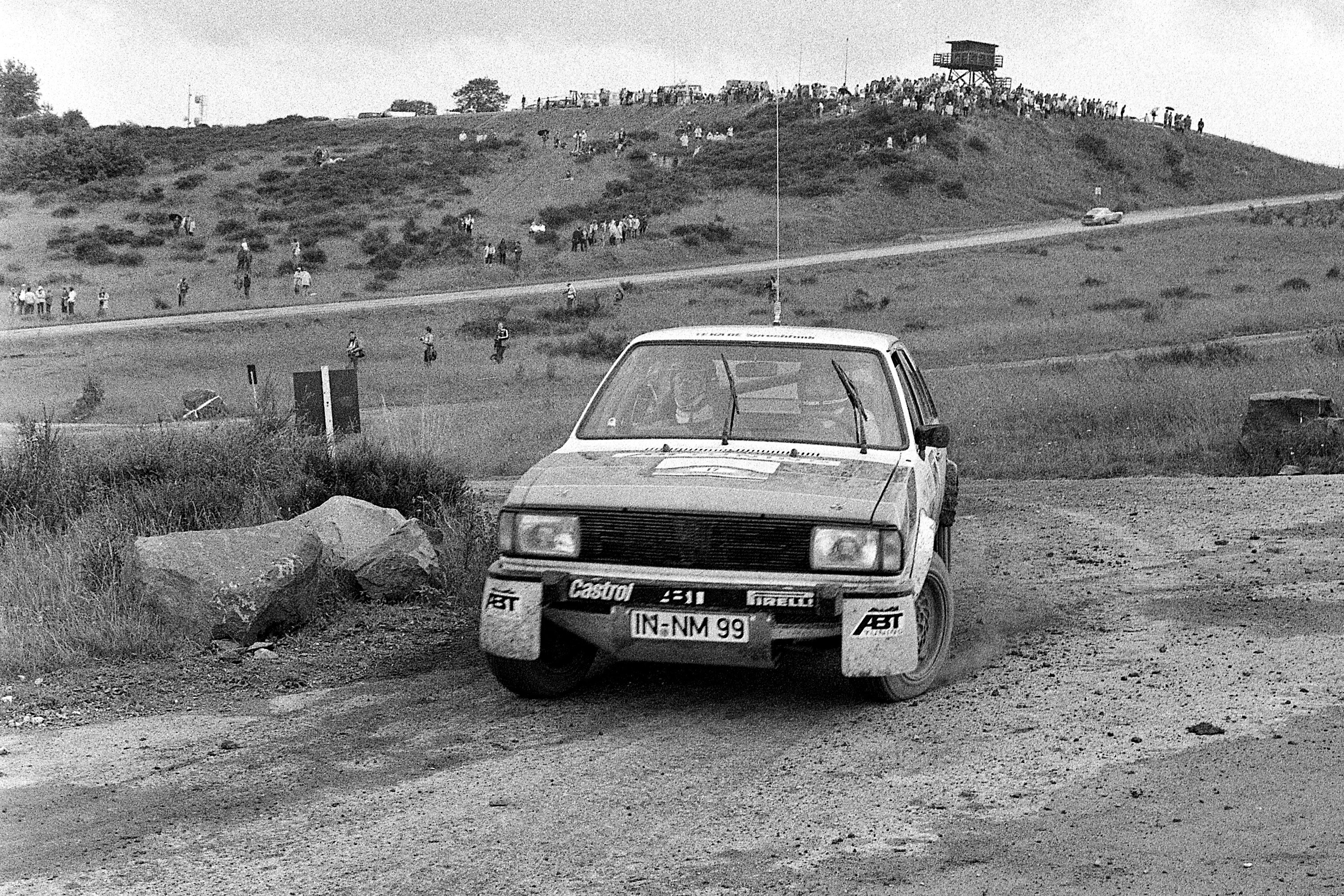 German team Joachim Knollmann and Klaus Hopfe (Audi 80 GTE) eventually claimed sixth place overall in their native 1978 Hunsrück-Rallye.